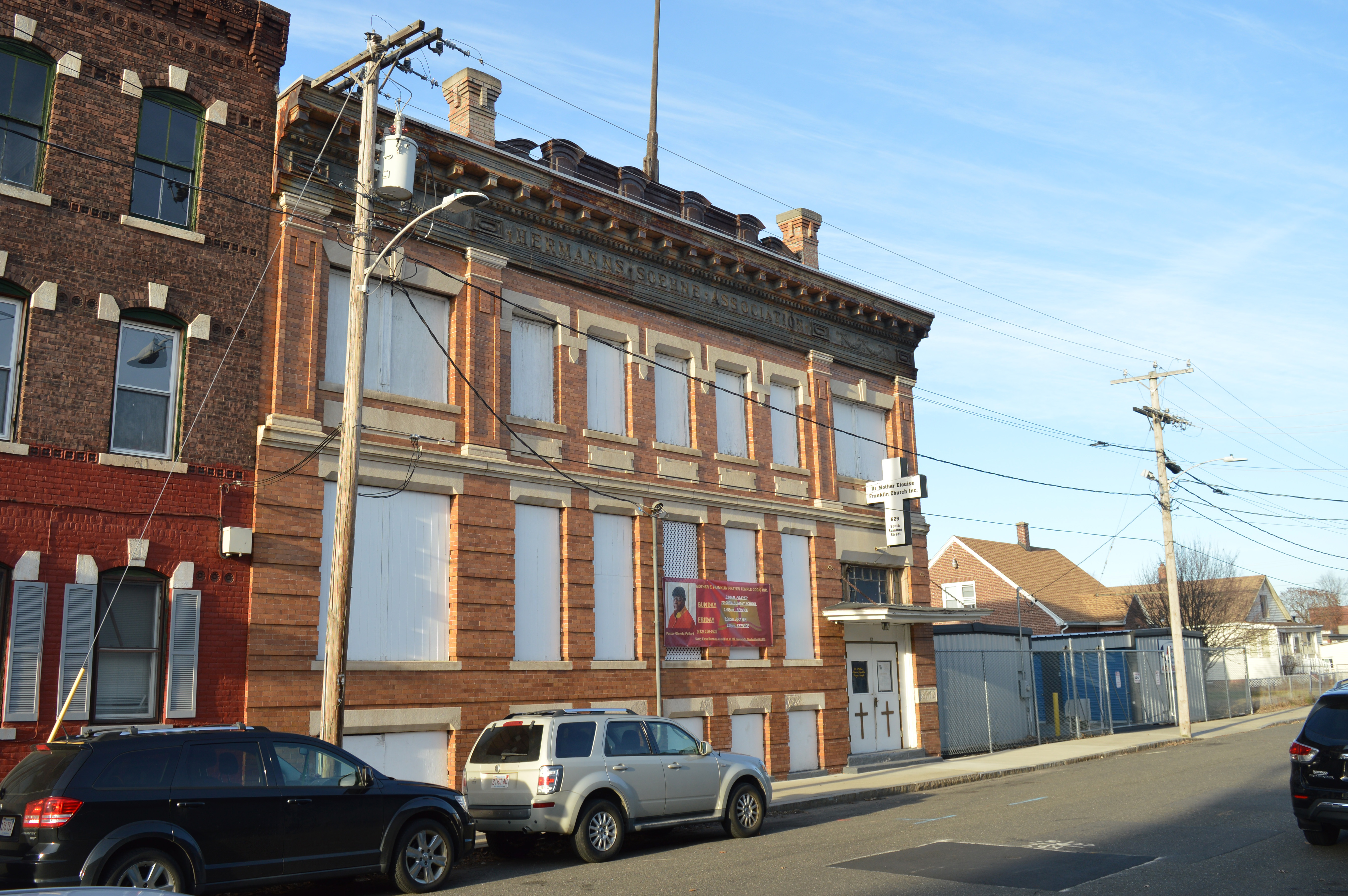 The former Sons of Hermann hall in the South Holyoke neighborhood of Holyoke, Massachusetts; originally used for a benefits society as an assembly hall, it was renovated in 1973 by the New Hope Church of God in Christ, since rededicated Dr. Mother Elouise Franklin Church. Sometime prior to 1953 it was the home of Teutonia Lodge, No. 1, ODHS.